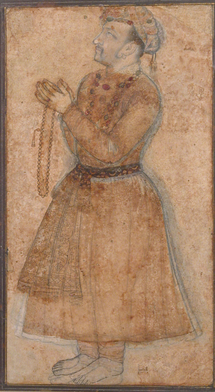 Portrait of Emperor Jahangir Praying Object Name: Illustrated single work Reign: Jahangir (1605–27) Date: early 17th century Geography: India Medium: Ink and gouache on paper Dimensions: 10 1/2 x 5 3/4in. (26.7 x 14.6cm) Classification: Codices Credit Line: H. O. Havemeyer Collection, Gift of Horace Havemeyer, 1929 Accession Number: 29.160.19 This artwork is not on display